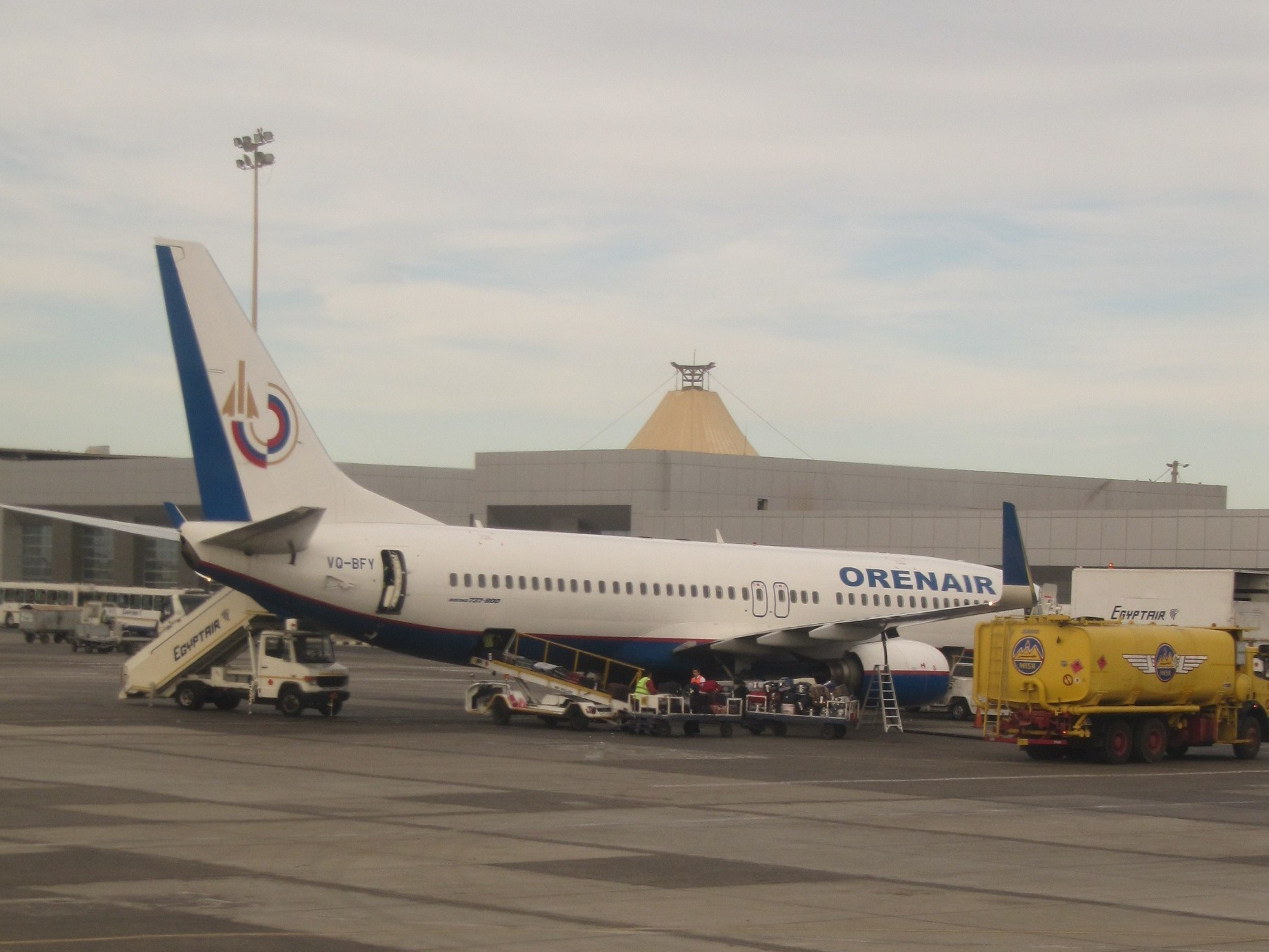 Orenburg Airlines